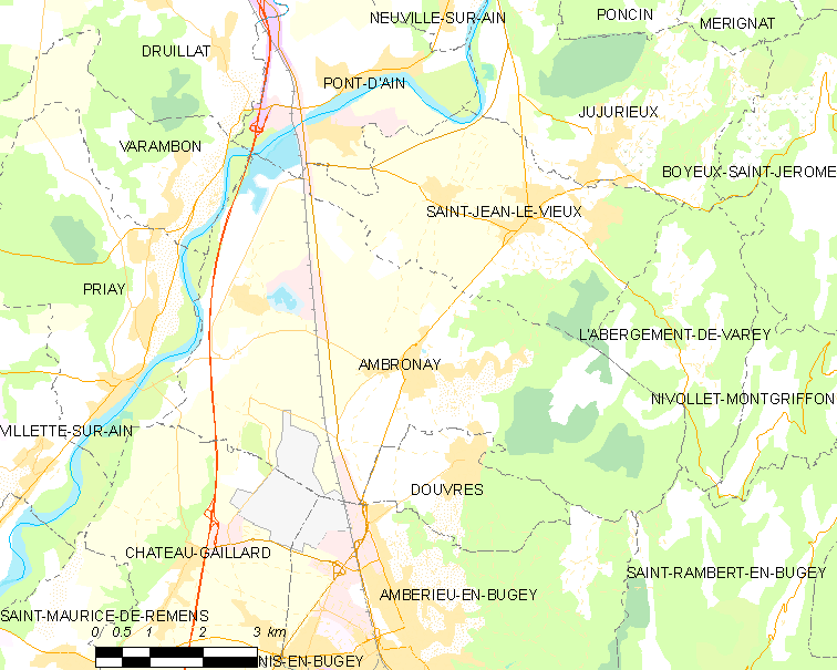 Map of French commune: Ambronay Map commune FR insee code 01007.png